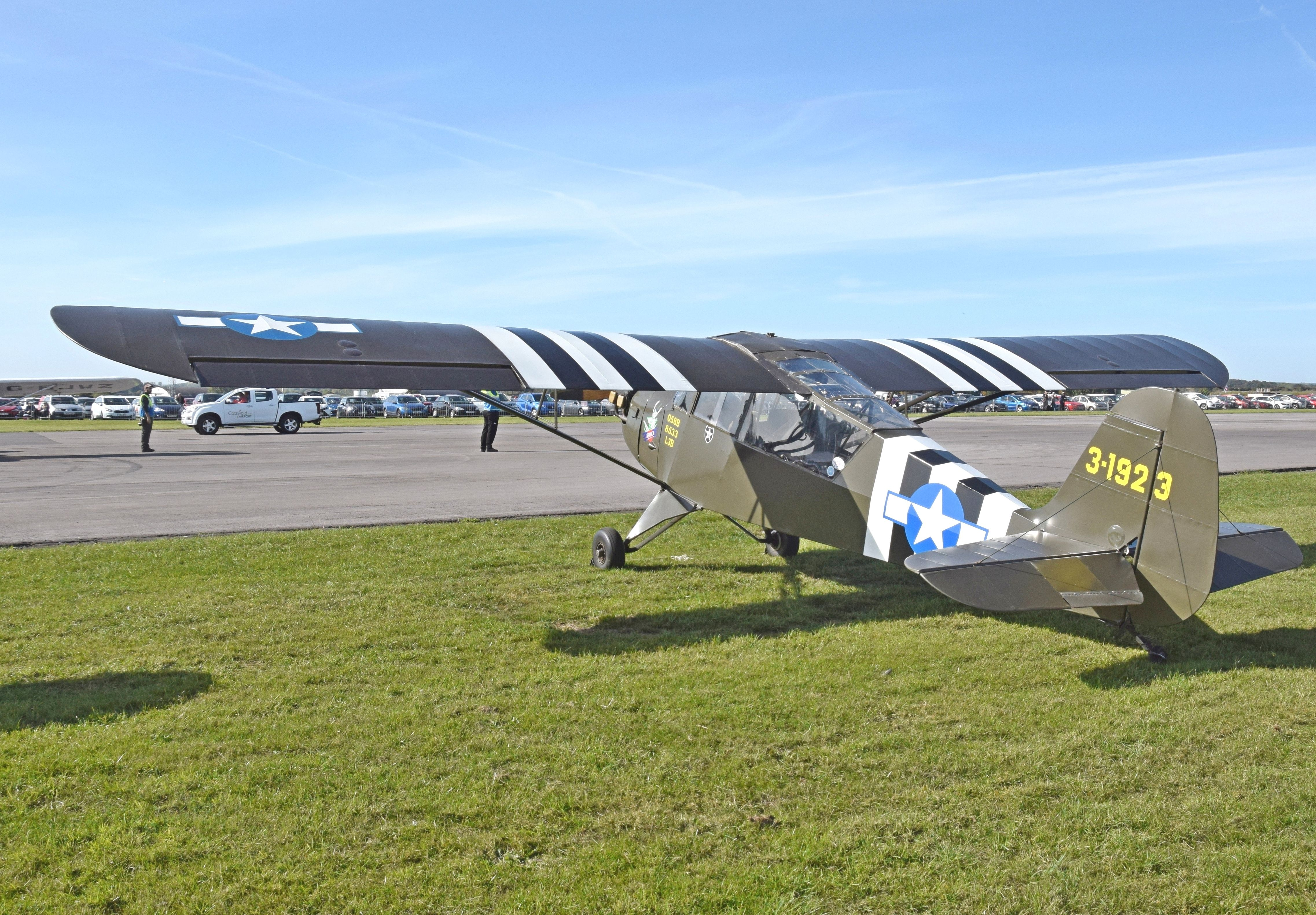 Aeronca Grasshopper L-3B observation and liaison aircraft, formerly of the United States Army Air Forces, now privately owned as G-BRHP. In the static display at the 2018 Cotswold Airport Revival Festival, Gloucestershire, England. Serial 058B-8533, code 3-1923, built 1942, maximum speed 129 mph.